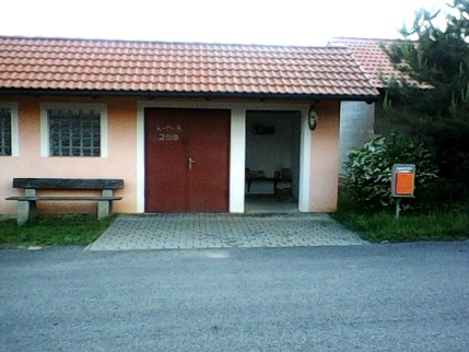 Bačalky's main bus-stop, taken Wednesday 16.05.2018.